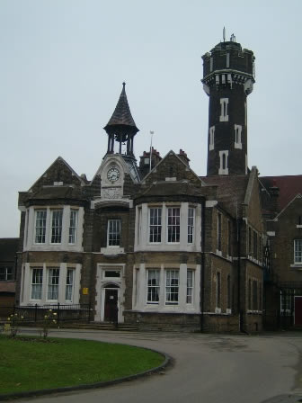 Small image of Stone House Hospital, Stone, Kent.